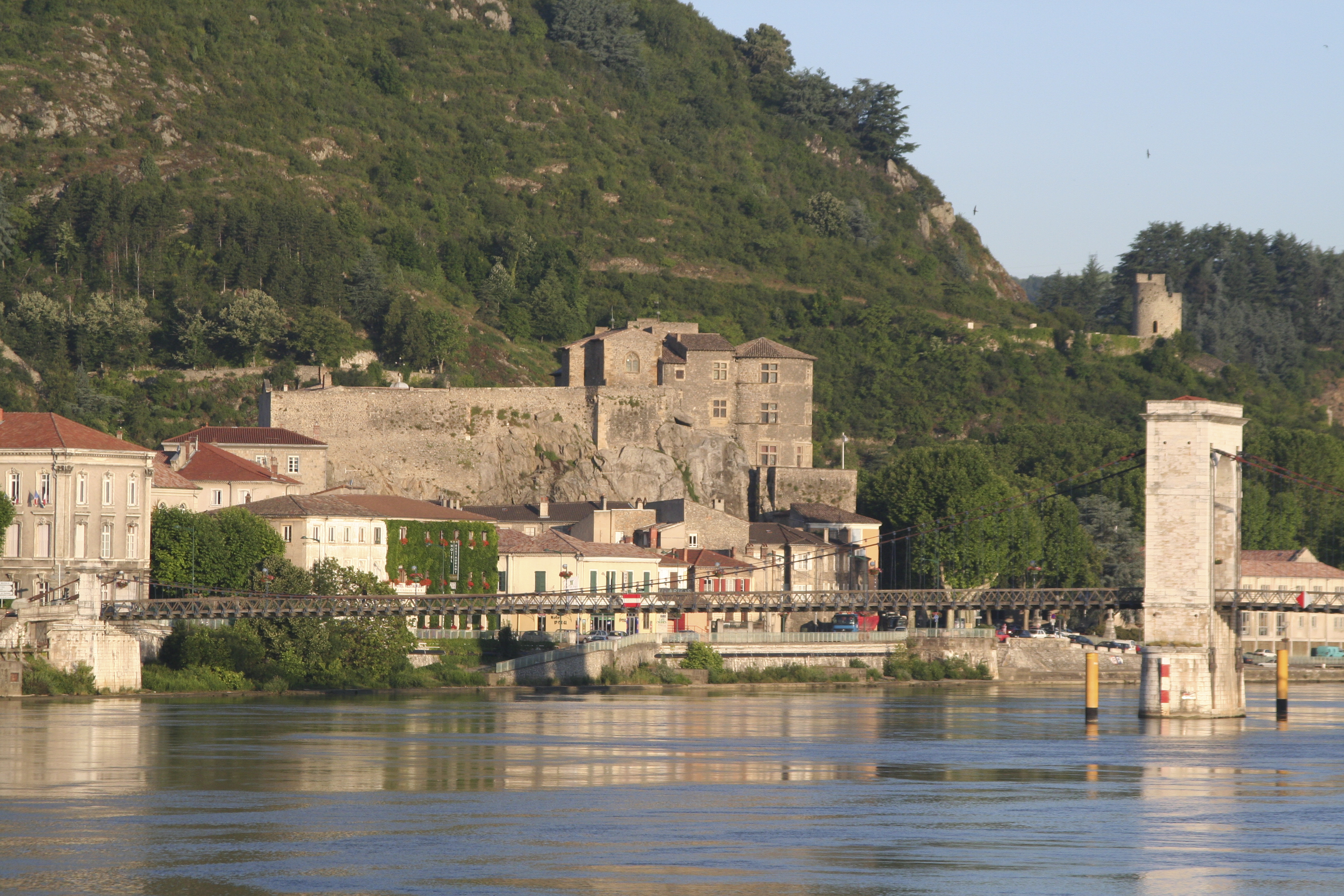 The castle of Tournon sur Rhône